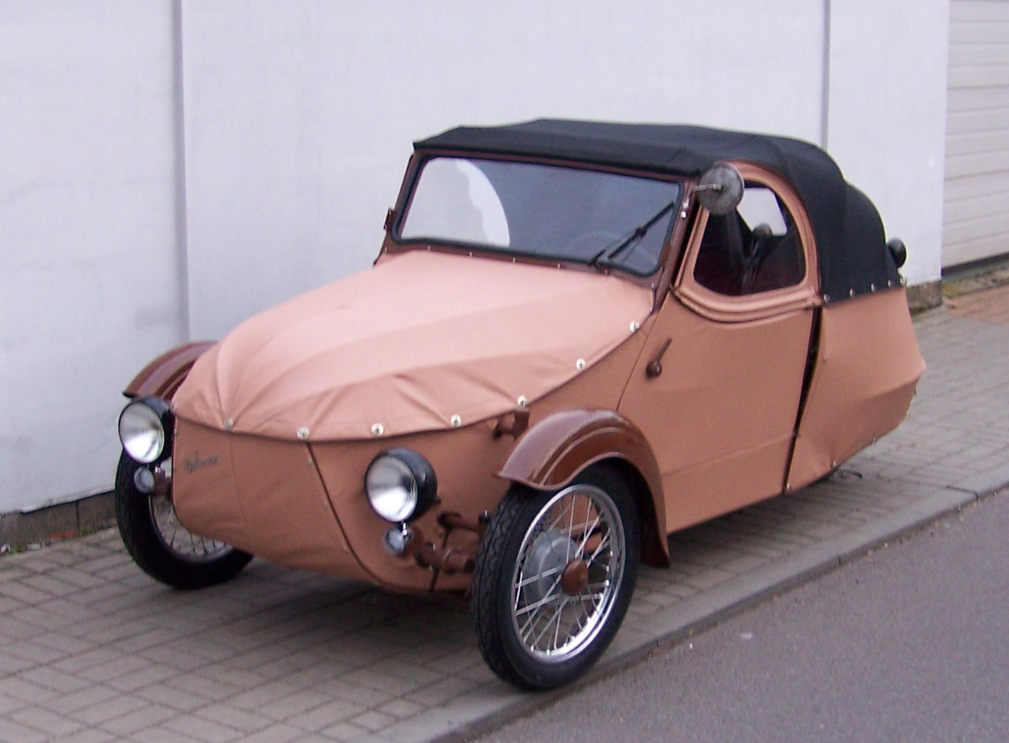 Velorex 16/250